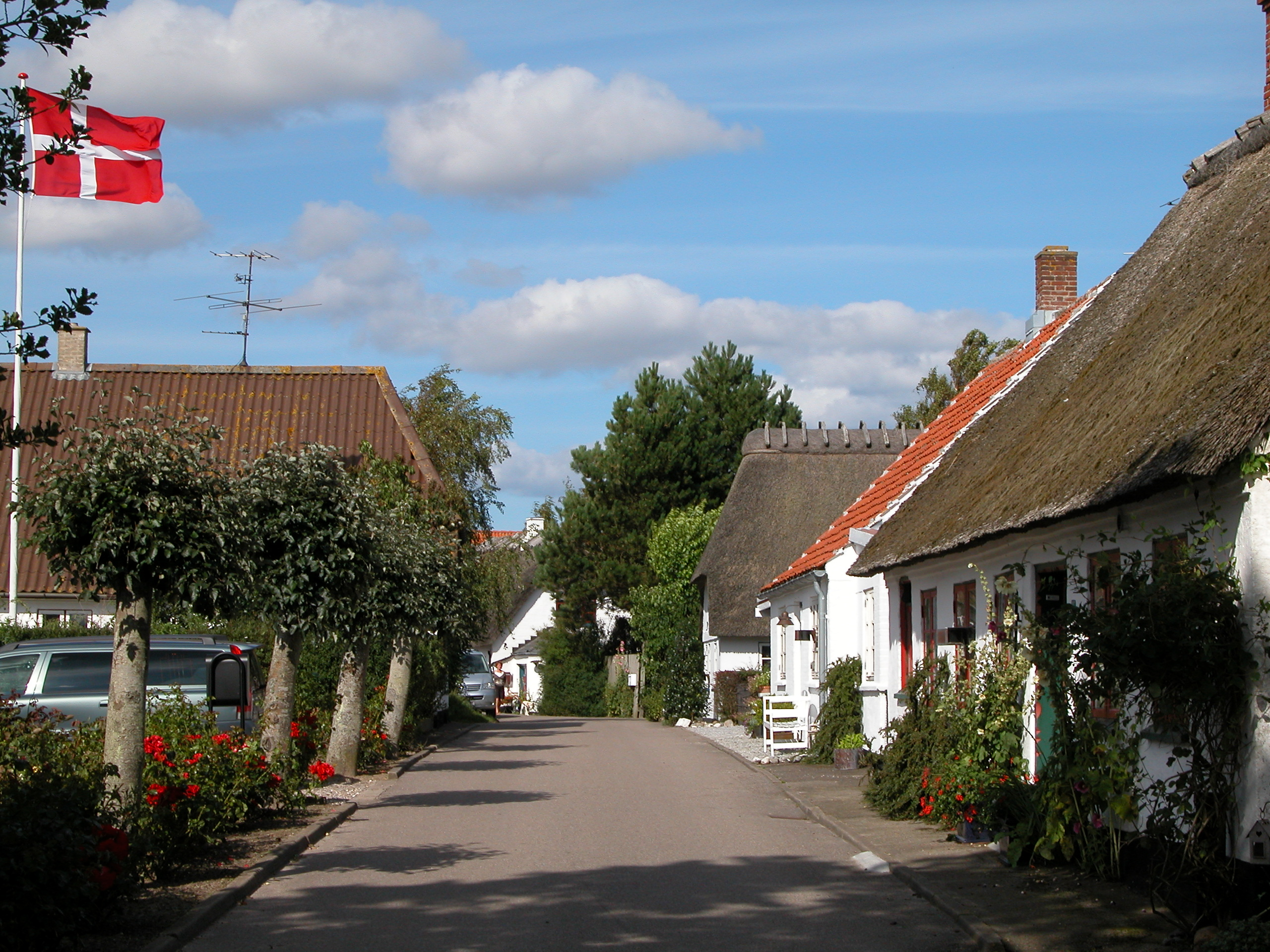 Sønderby, Kegnæs, Als